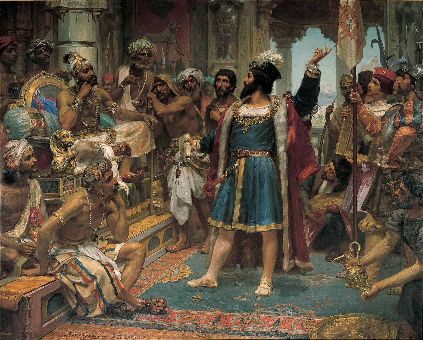 Vasco da Gama before the Zamorin of Calicut by Veloso Salgado, Sociedade de Geografia de Lisboa.